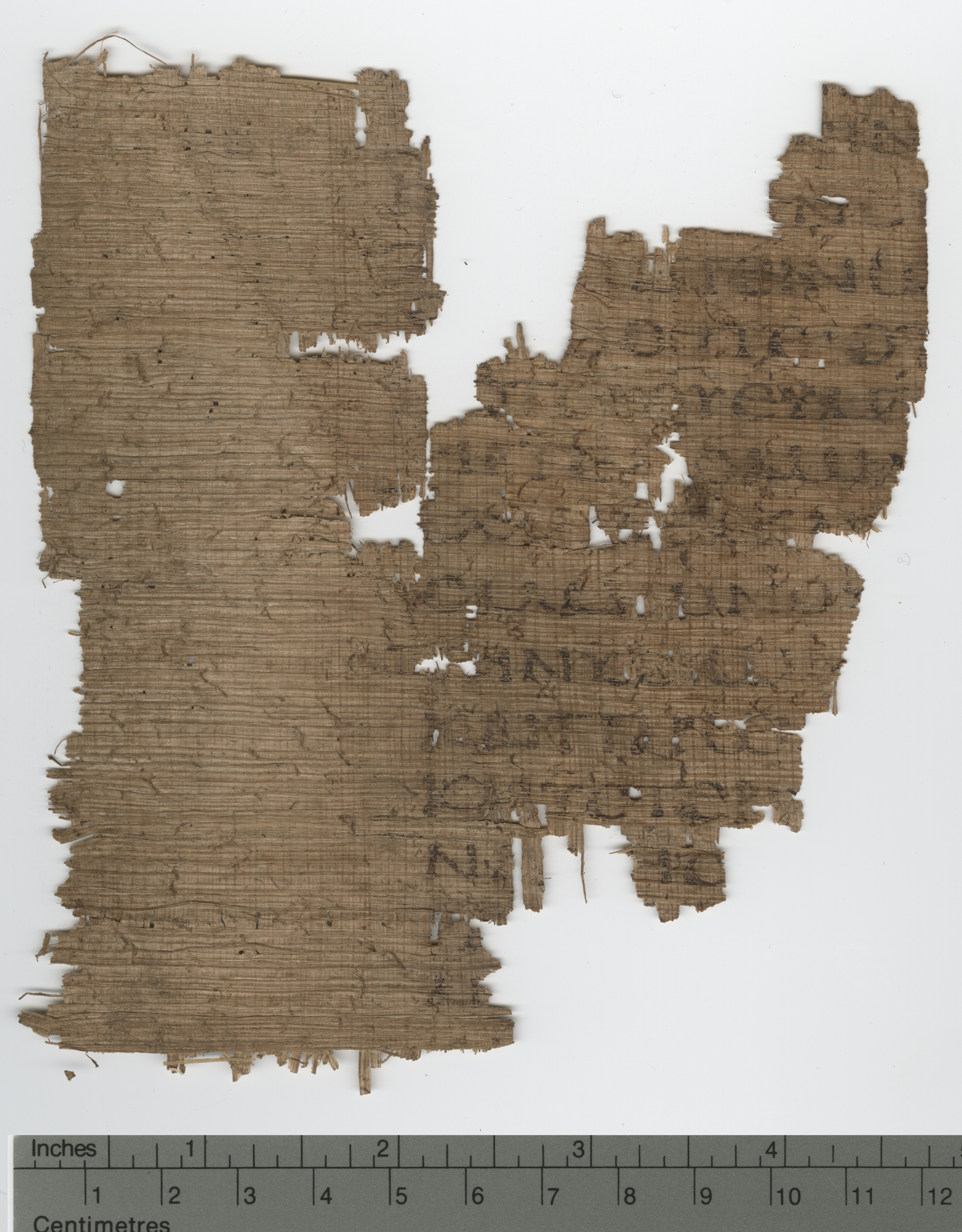 p124 verso